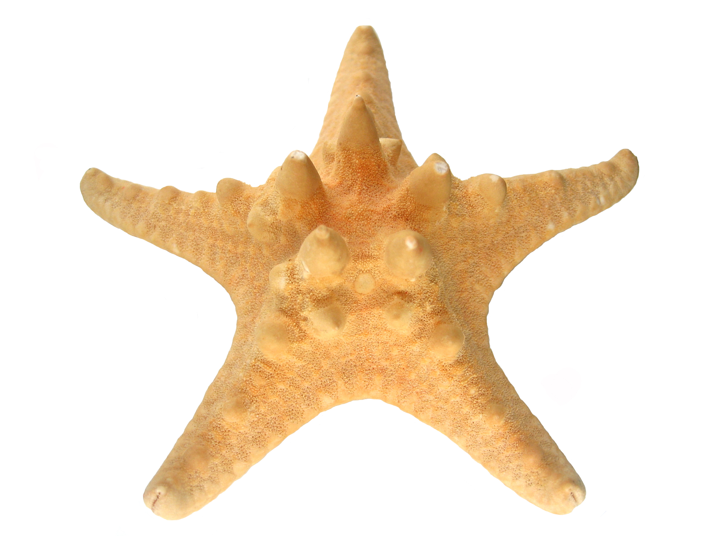 Macro of a horned starfish.